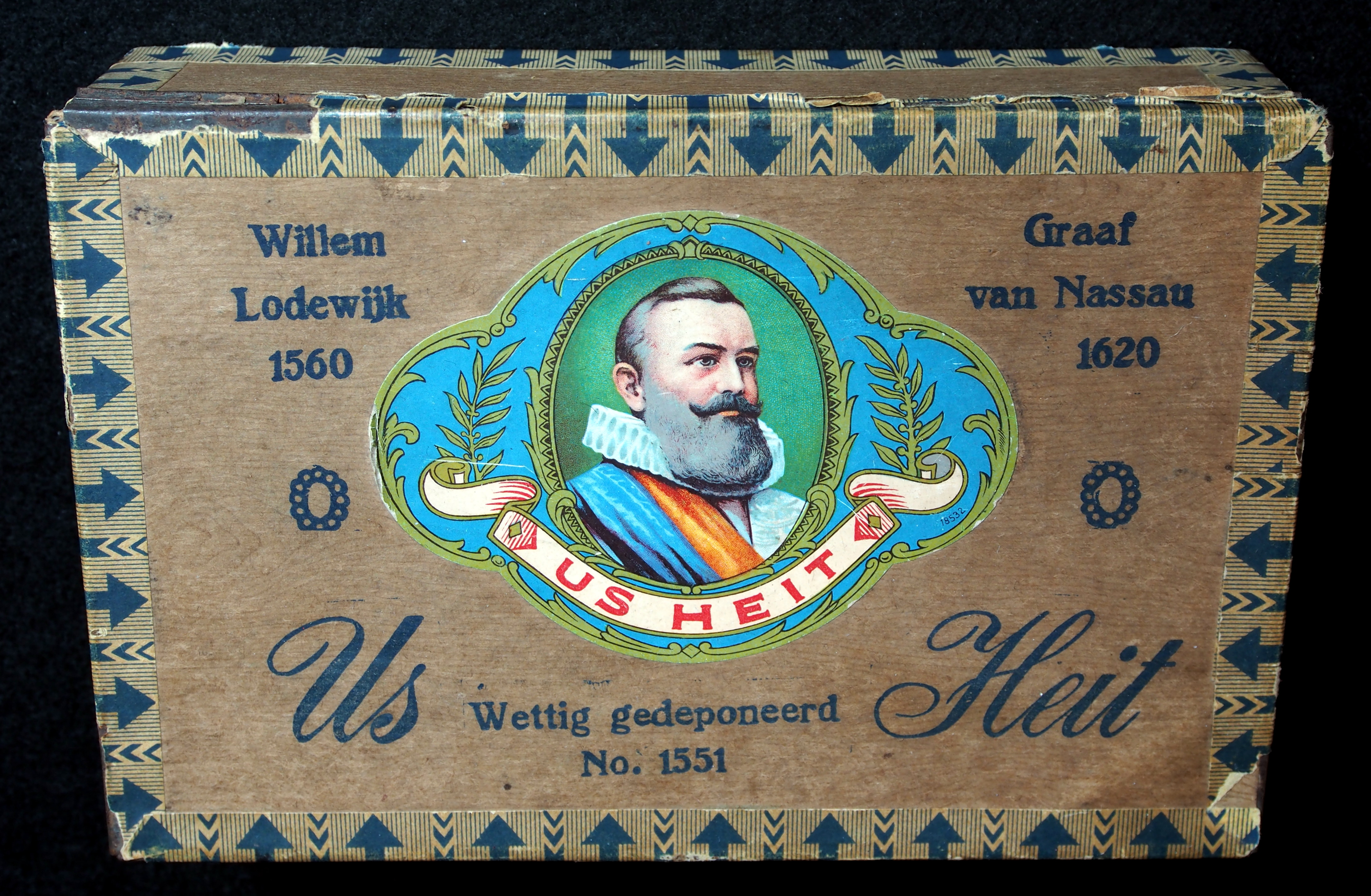 Very old product that is not produced and not sold any more. Note that some tins may look the same, but when looked for carefully there are some slight differences! For more info see tincollectors.nl or